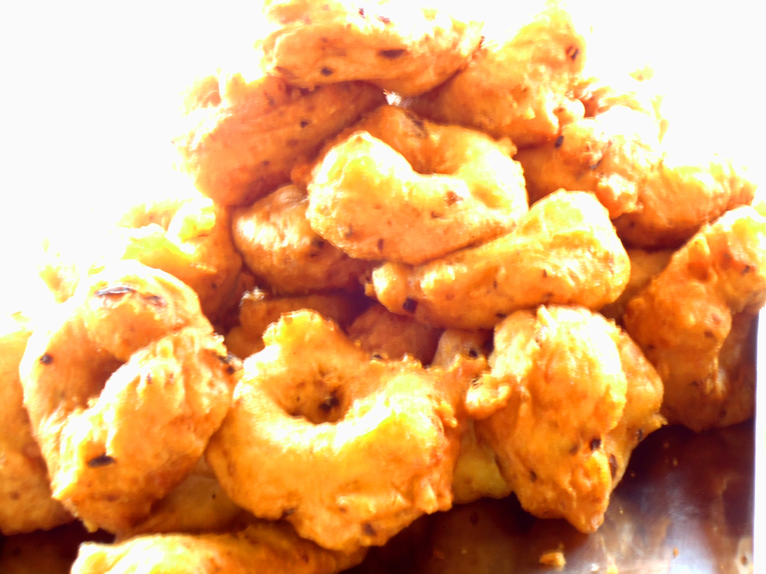 Mulakuvada